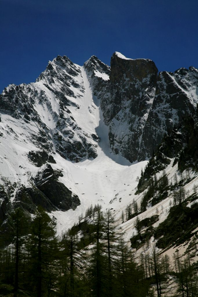 Le Couloir